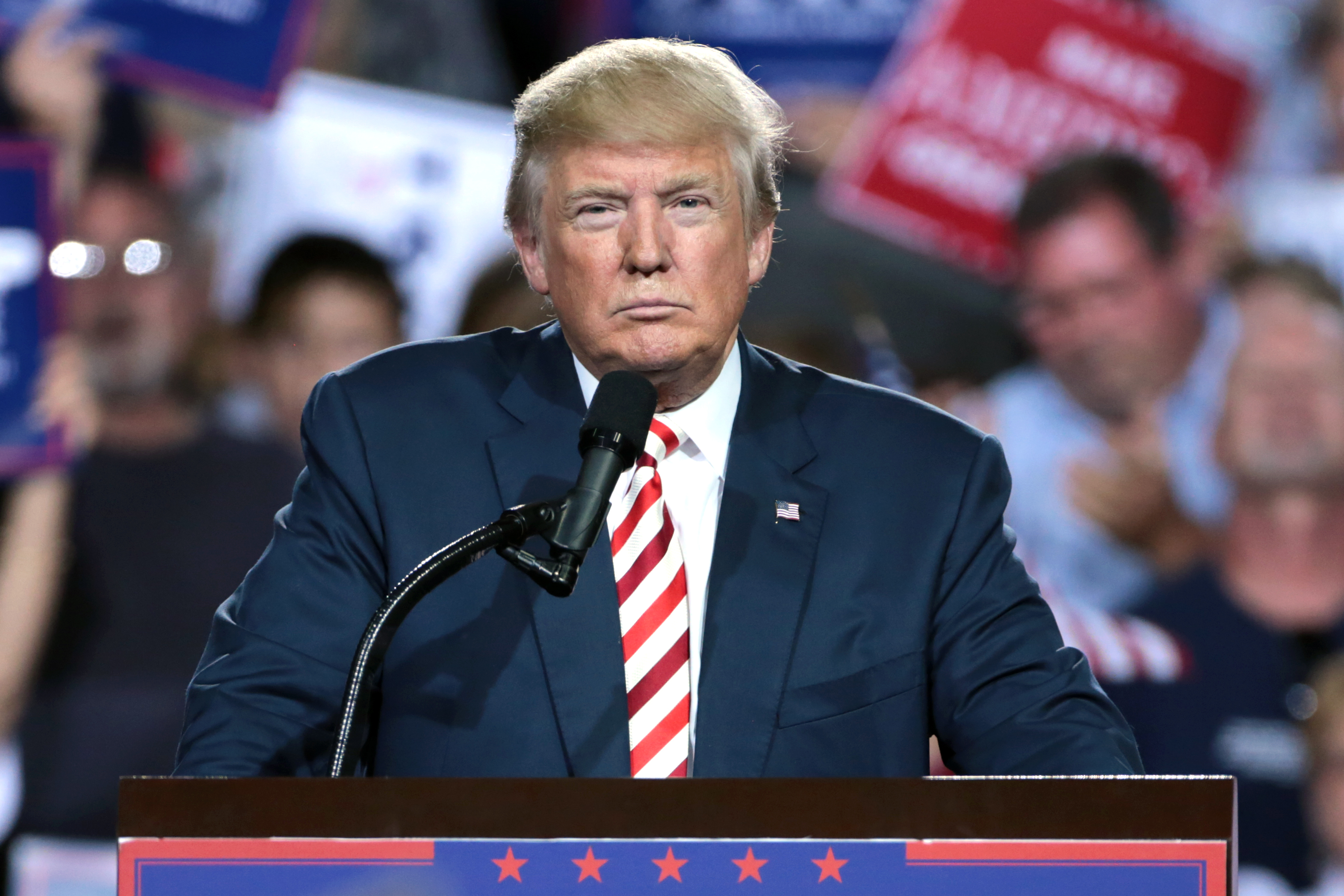 Donald Trump speaking with supporters at a campaign rally at the Prescott Valley Event Center in Prescott Valley, Arizona.